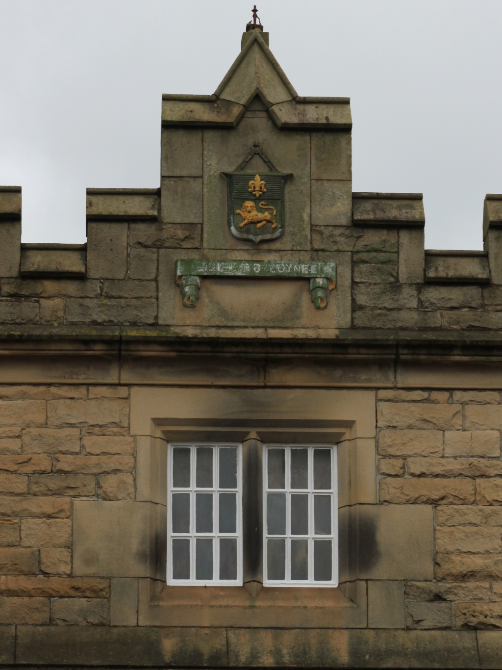 The arms of Lancaster are carved in the stonework of the 1852 extension to the western range of buildings at Lancaster railway station.